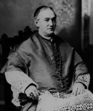 William Hickley Gross (1837-1898), Archbishop of Oregon